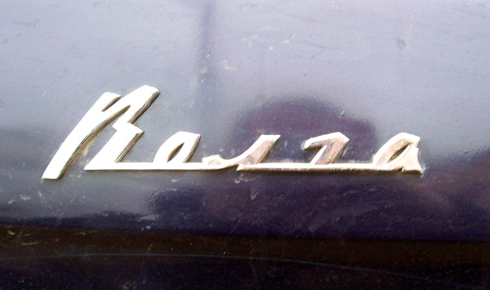 Volga GAZ-24 fender emblem